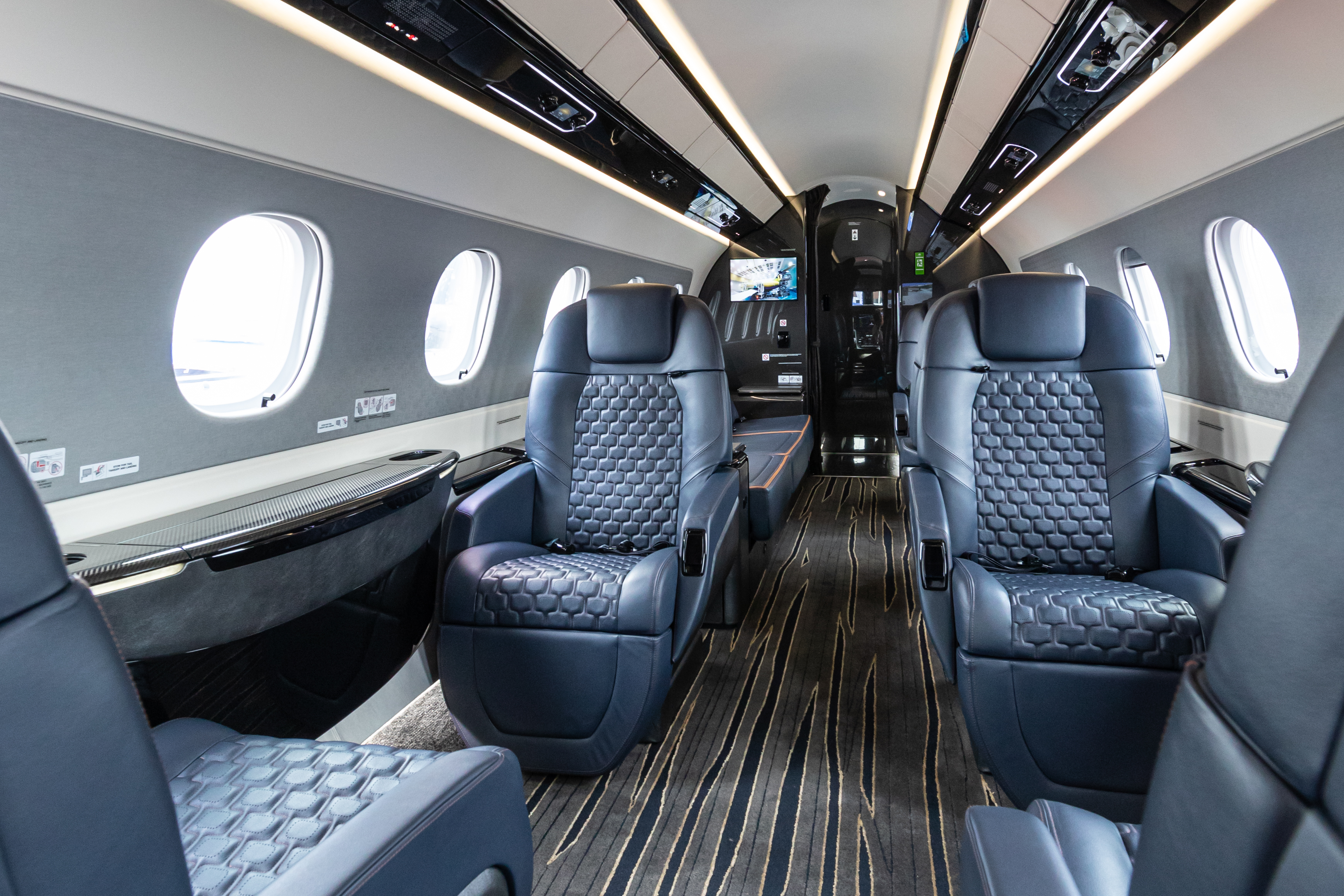 Interior of an Embraer Praetor at EBACE 2019, Palexpo, Switzerland